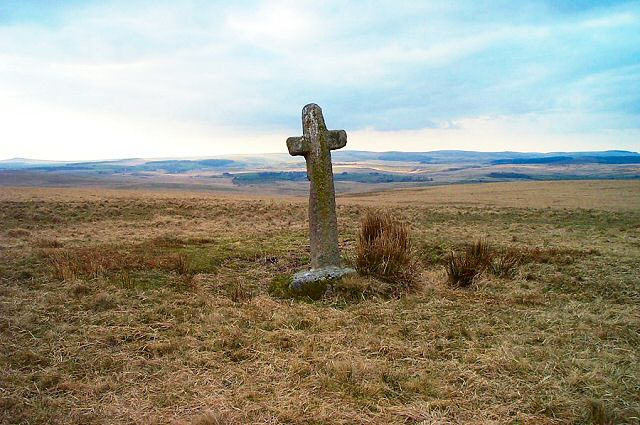 Ter Hill - Dartmoor. One of the granite crosses on Ter Hill. This helped to mark out an old moortrack that went between the abbeys of Tavistock and Buckfast.